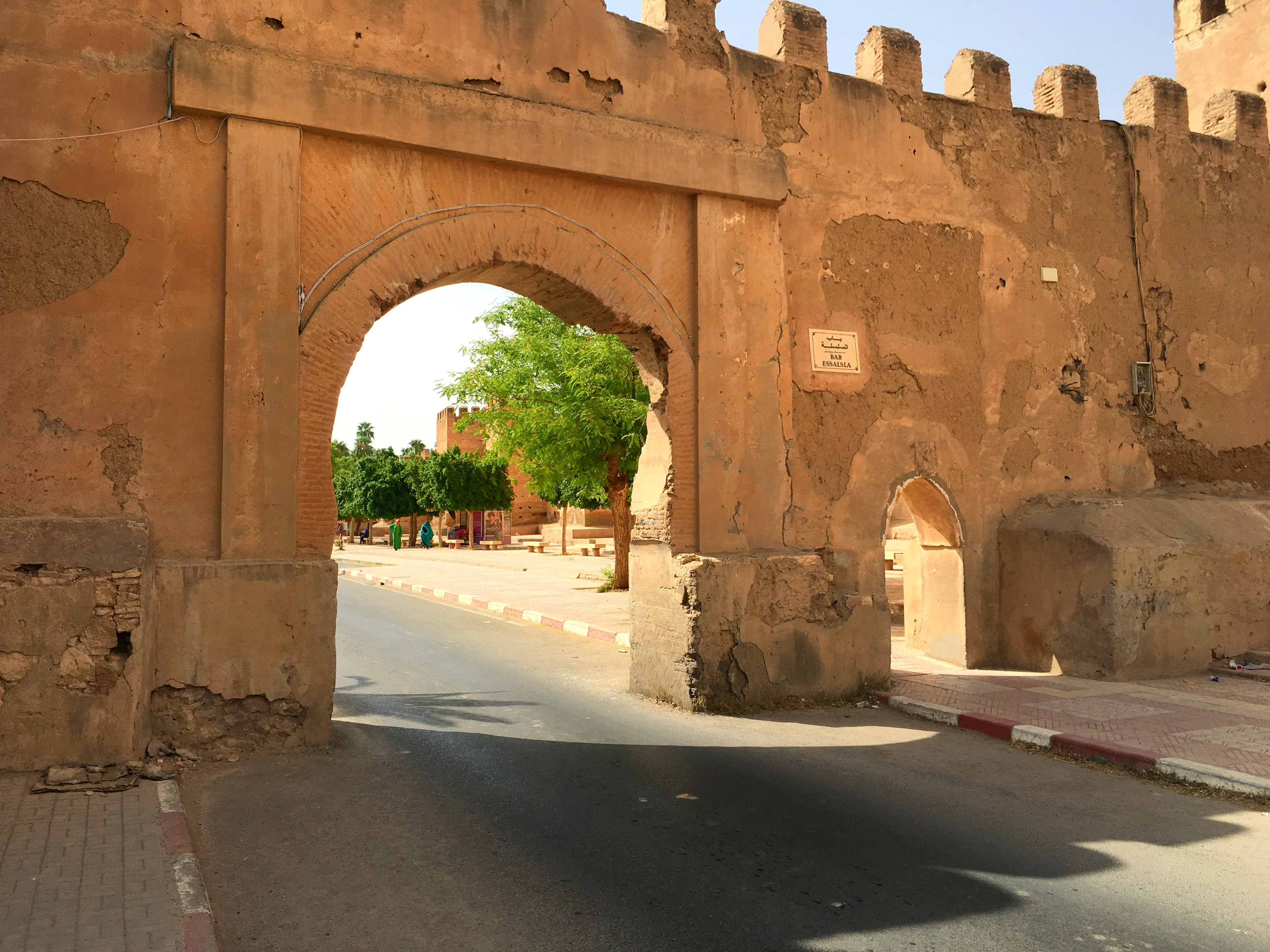 Bab Essalssla at the City Wall of Taroudant More stories can be found in our blog